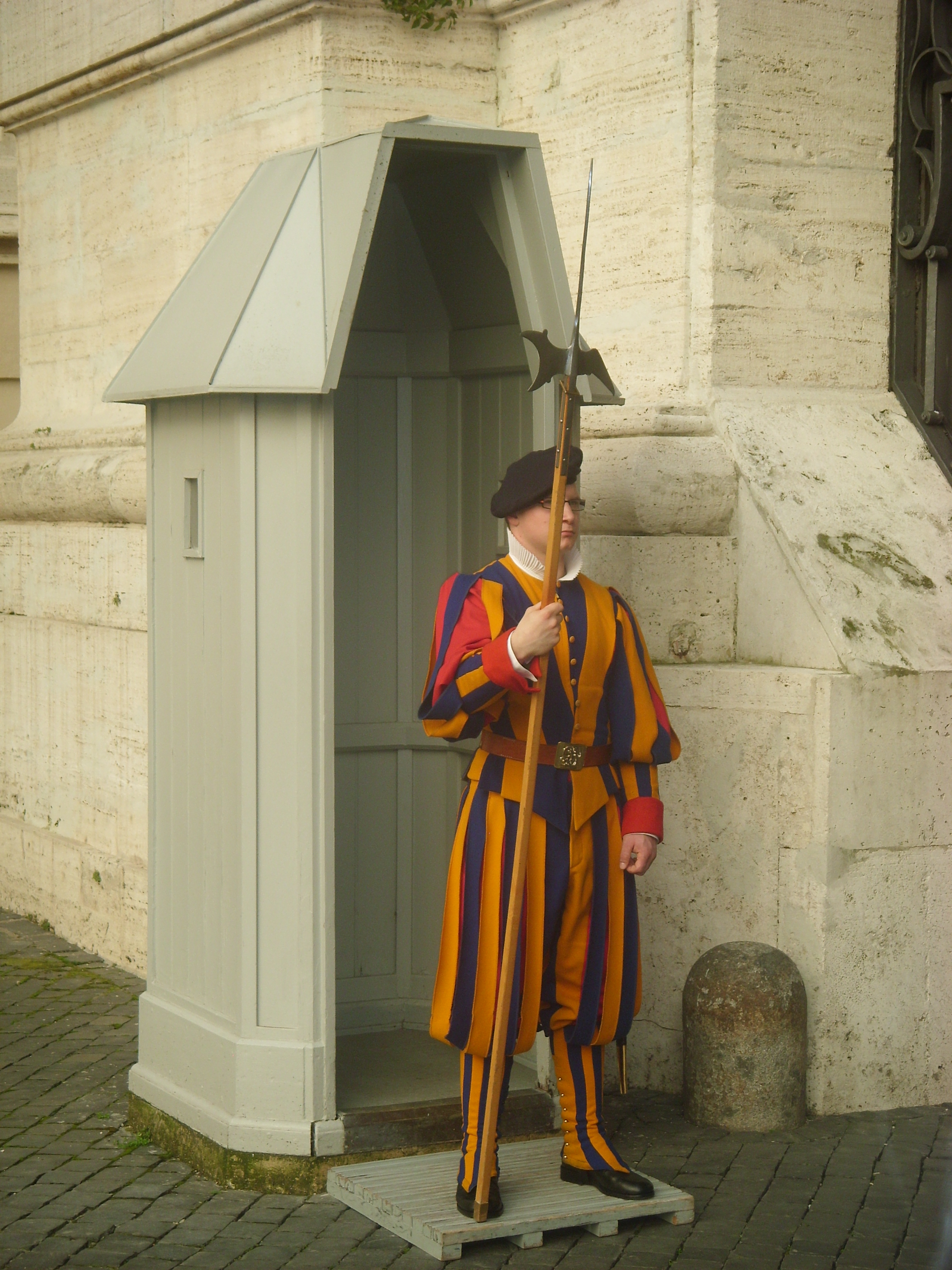 Swiss Guard holding halberd